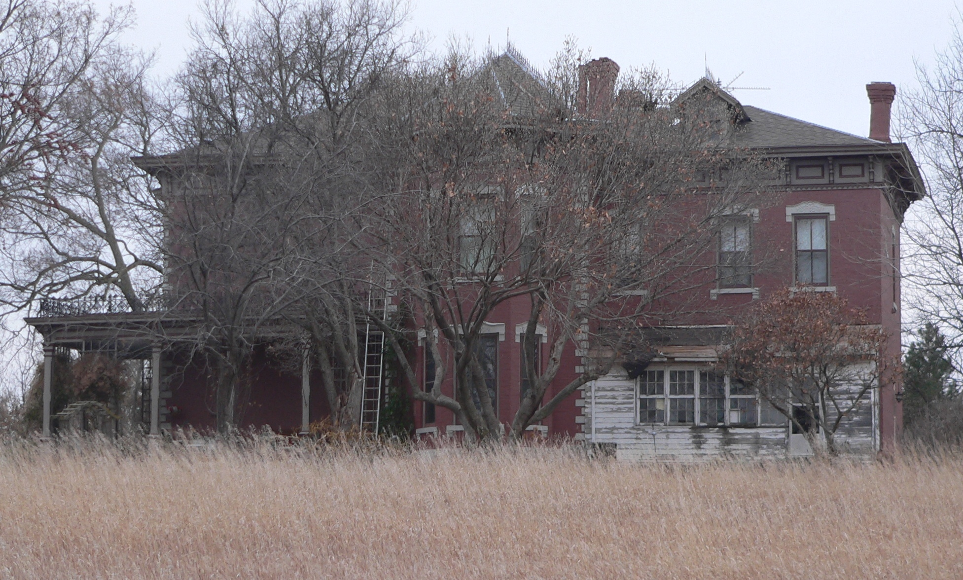 Boscobel, located at 2418 Steamwagon Road (north side of Steamwagon between Arbor Drive and county road 62) in Nebraska City, Nebraska; seen from the east, from CR62.